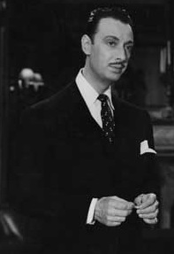 Eduardo Sandrini- actor argentino